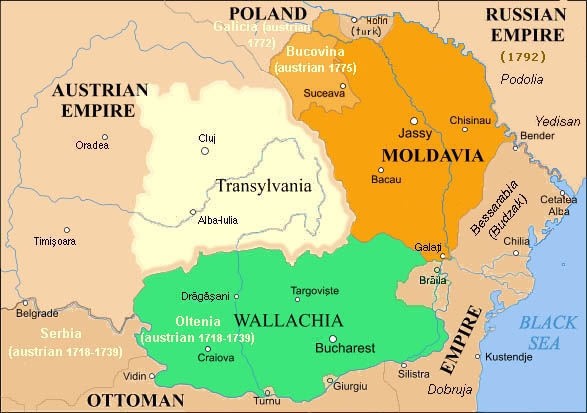 Romania's territory, map showing the period 1713-1812